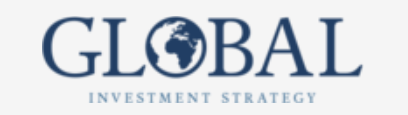 Global Investment Strategy UK Ltd